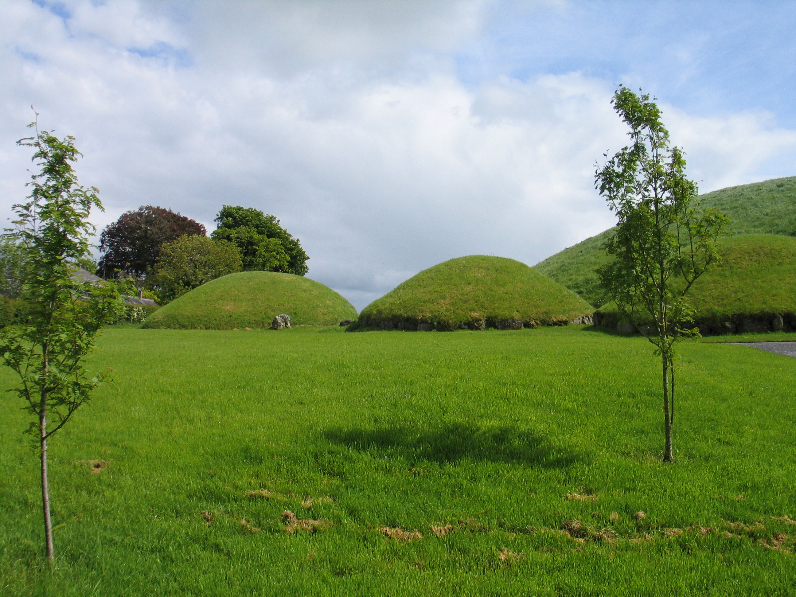 Knowth